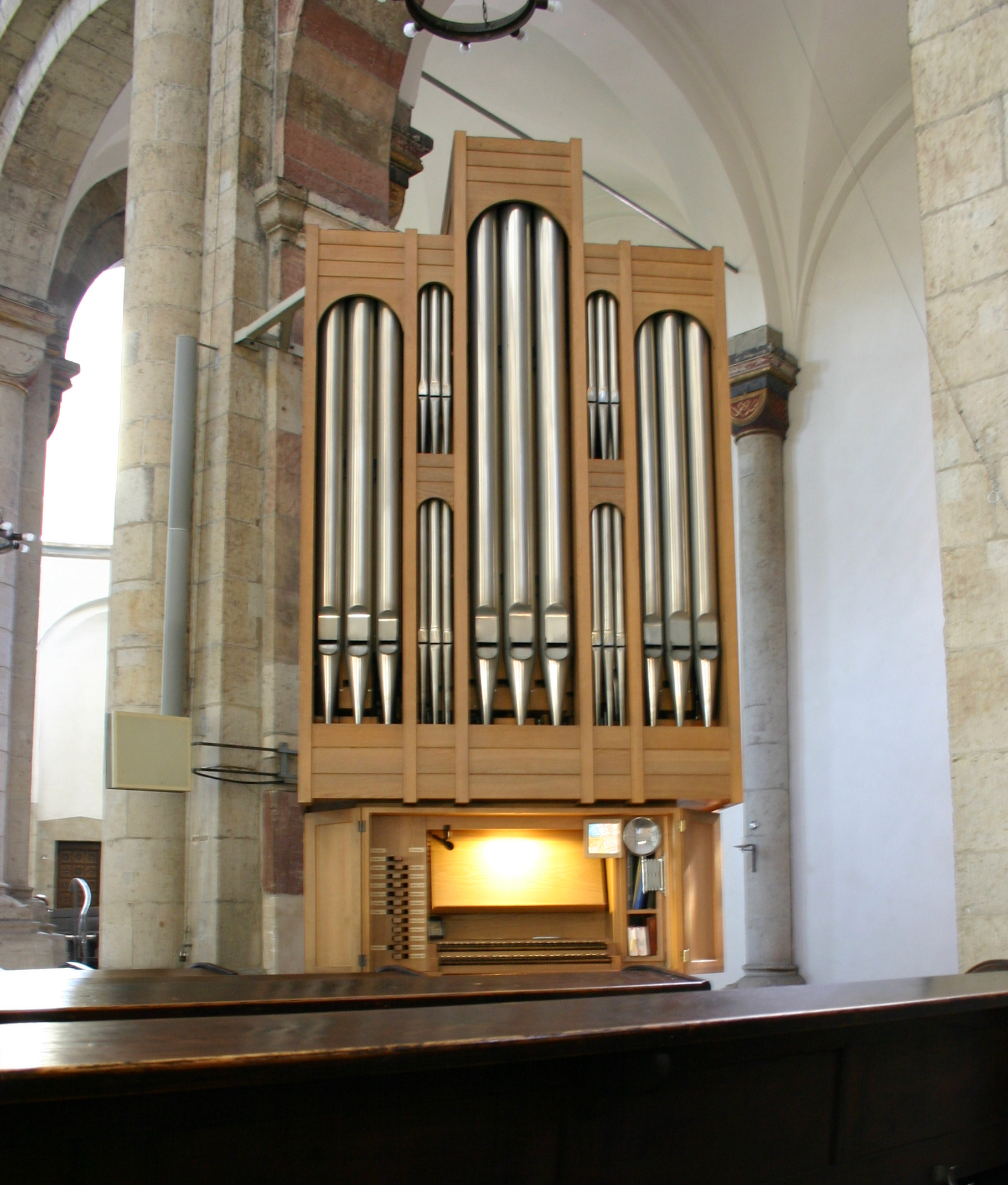 Choir organ of the Basilca St. Aposteln in Cologne / Germany